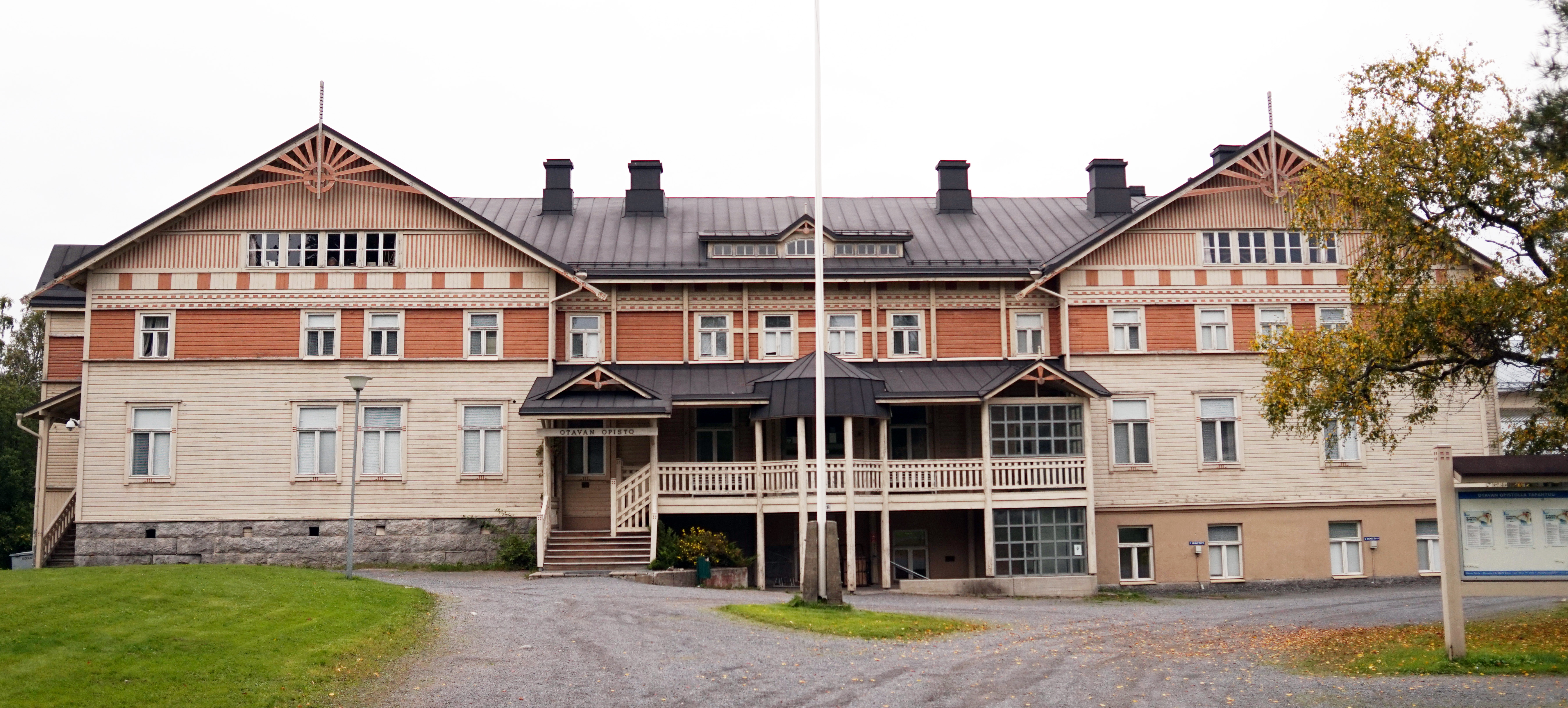 Otava Folk High School. Mikkeli, Finland.